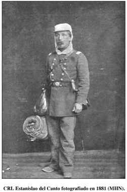 CRL Estanislado Del Canto